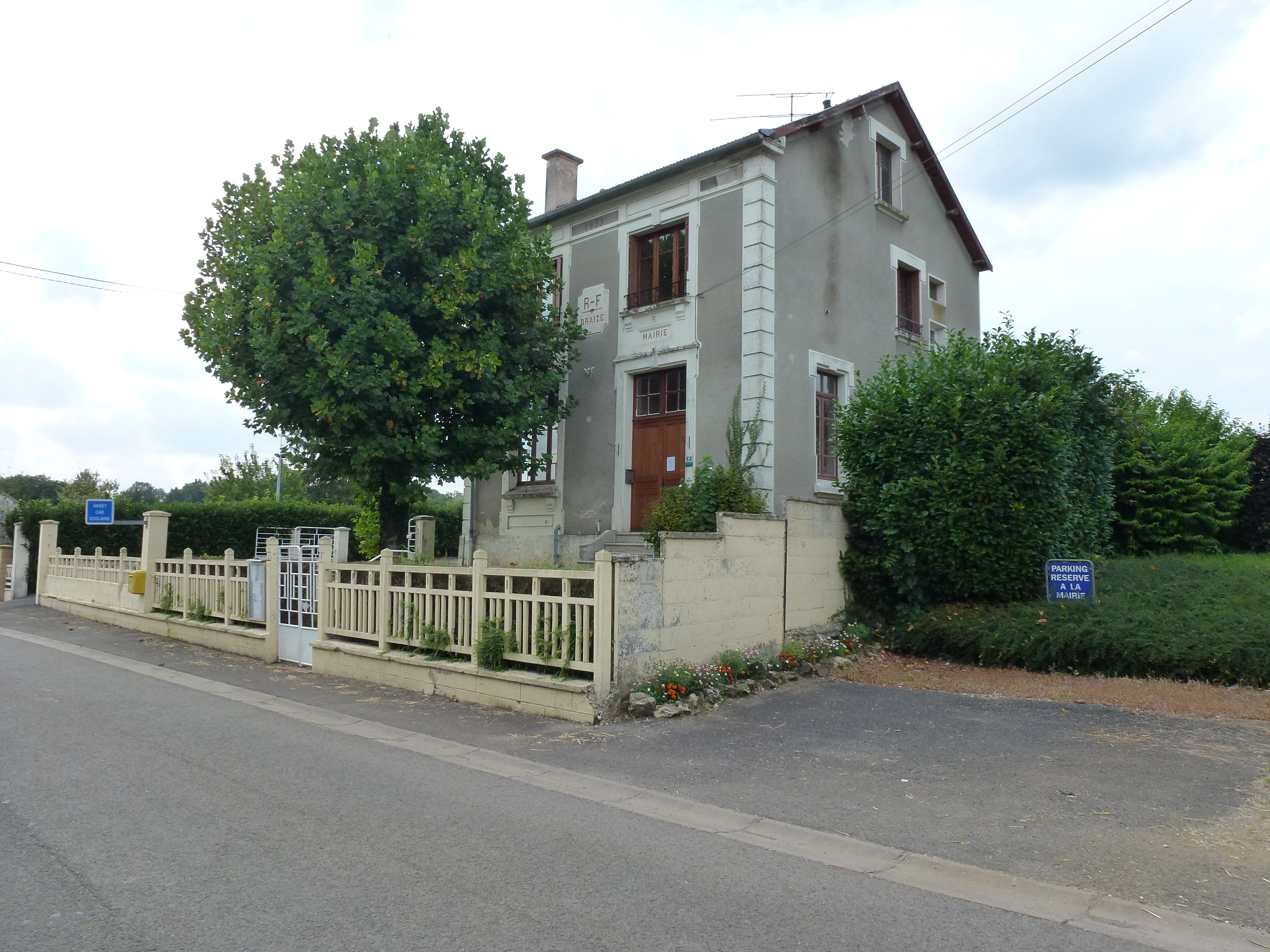 Draize (Ardennes) mairie